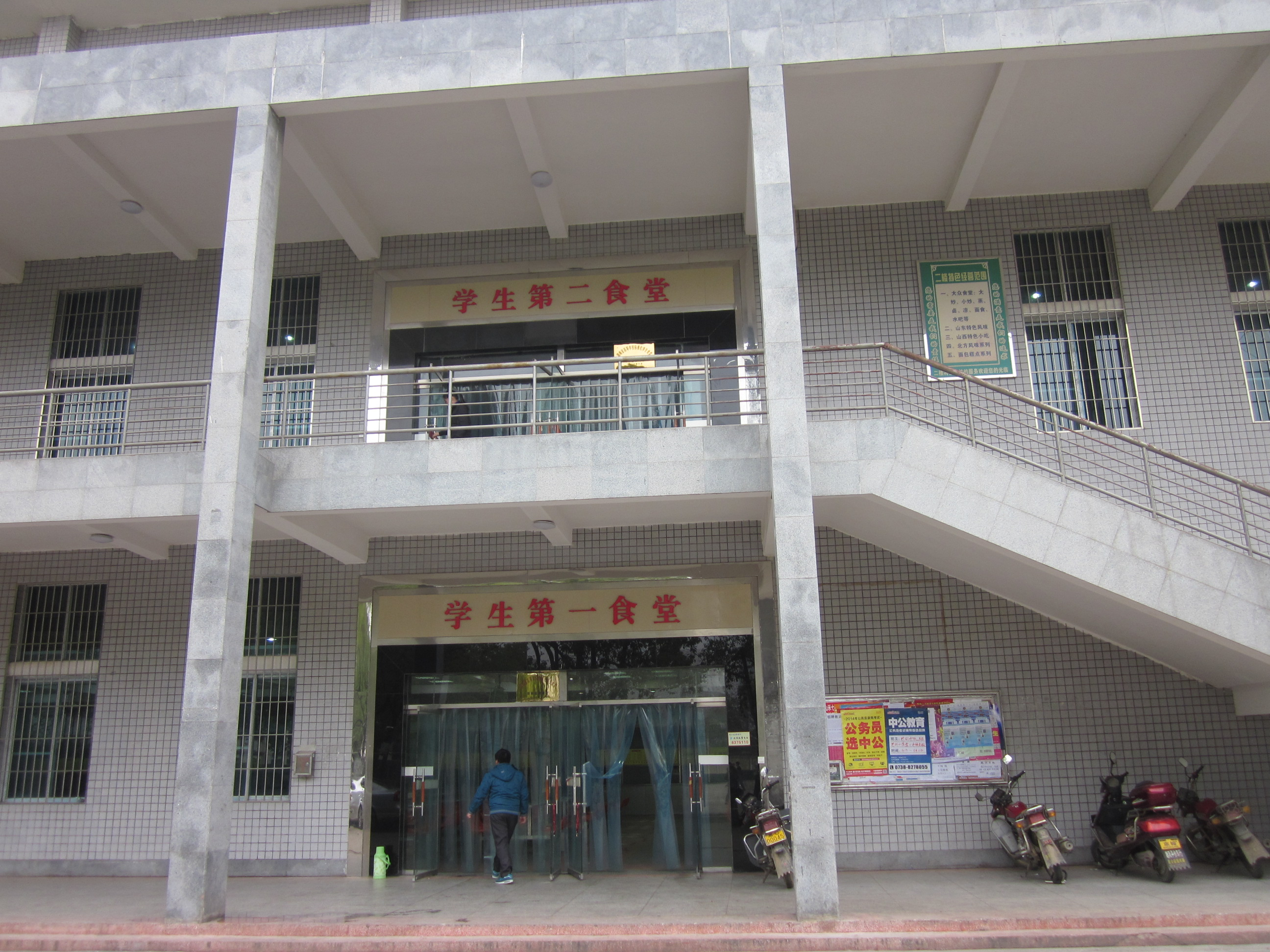 Hunan University of Humanities, Science and Technology （simplified